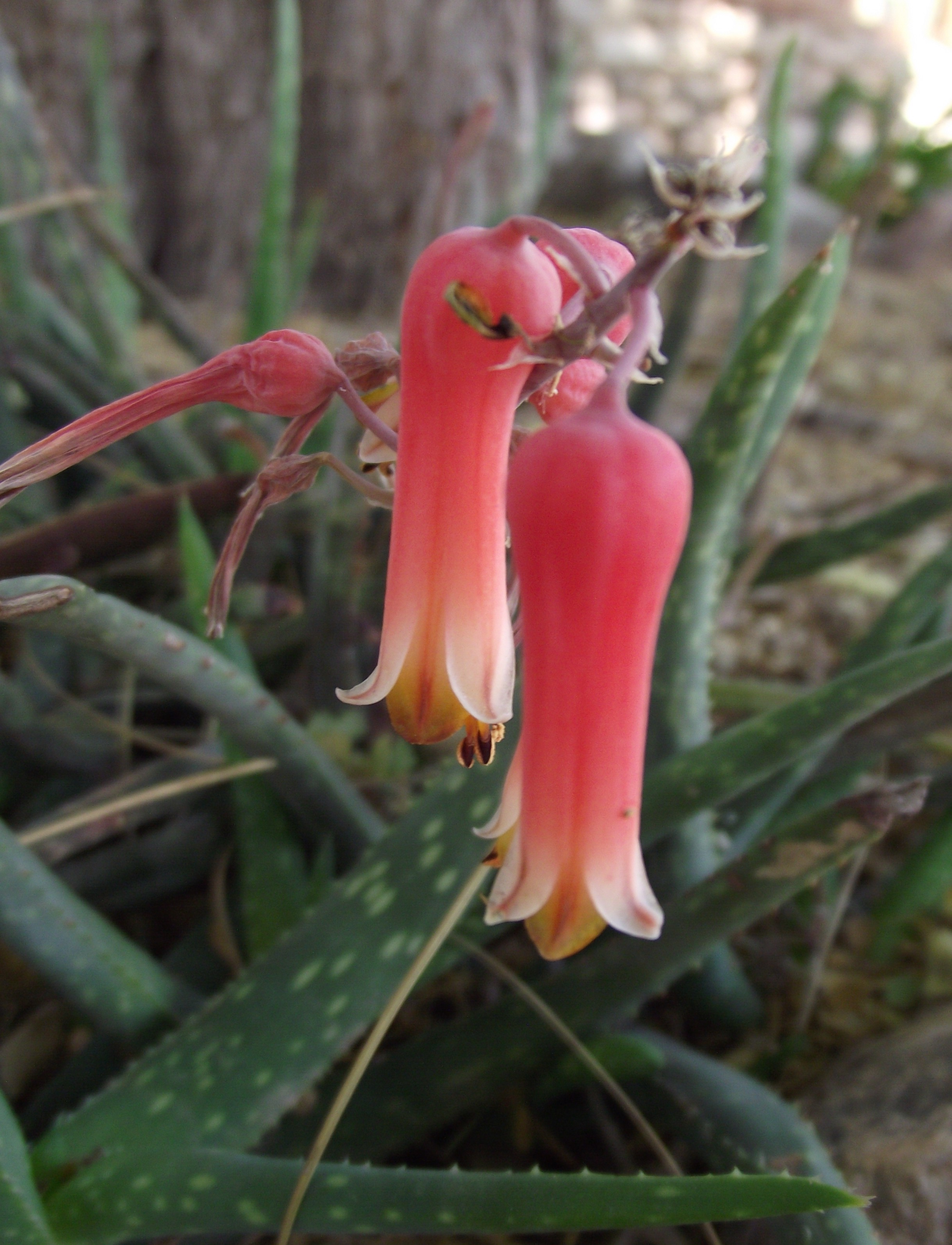 Aloe jacksonii at Desert Botanical Garden, Phoenix, Arizona, USA. Identified by sign.